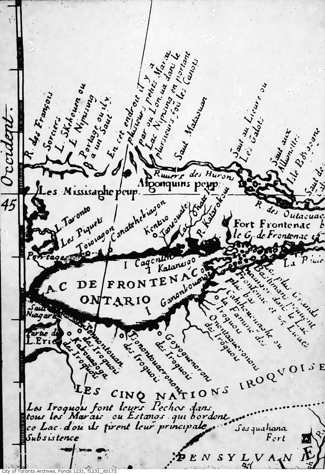 Map of Lac de Frontenac (Lake Ontario), showing Teiaiagon and Lac Taronto, and the land occupied by the Mississaugas and the Algonquin.